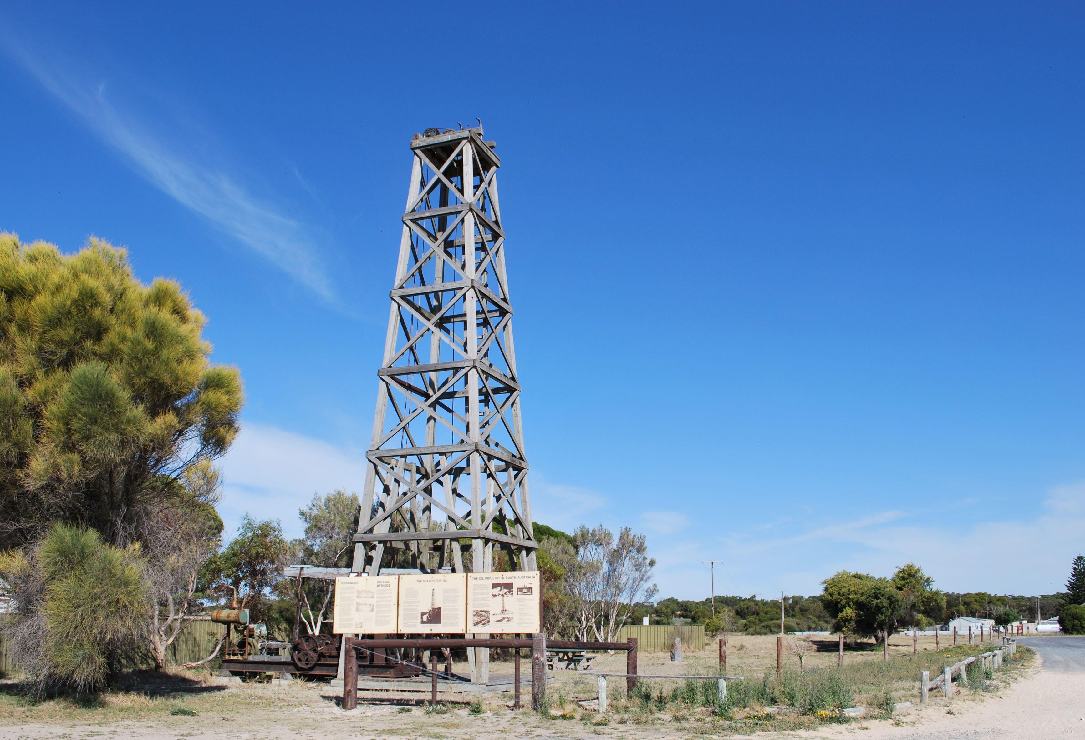 Historic oil drilling frame in Salt Creek, South Australia